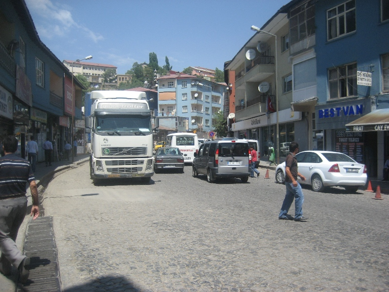 Bitlis city center, Bitlis